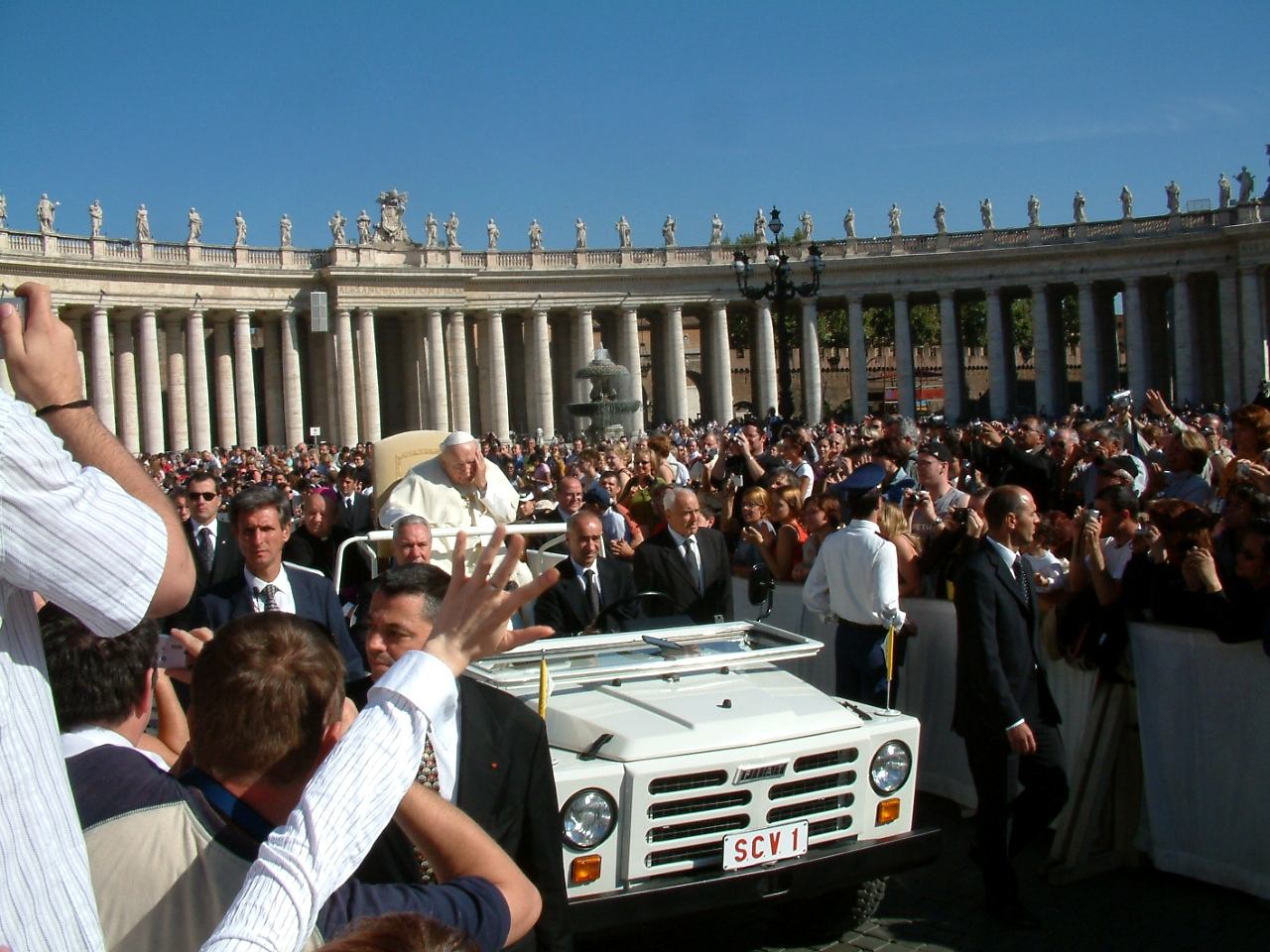 Pope John Paul II during General Audiency, 29 September 2004, St. Peter Sq., Vatican. On the left of the popemobile Camillo Cibin, former Inspector General of the Vatican Gendarmerie